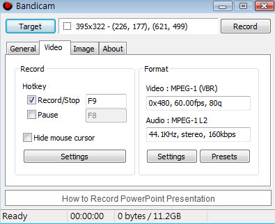 The menu of Bandicam.